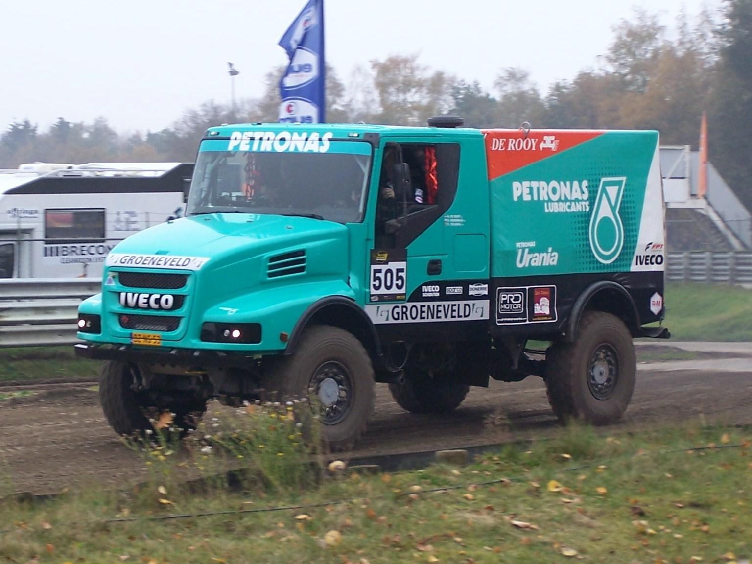 Iveco Powerstar Torpedo 4x4 rally truck, Petronas - Team De Rooy - Iveco. Gerard de Rooy.